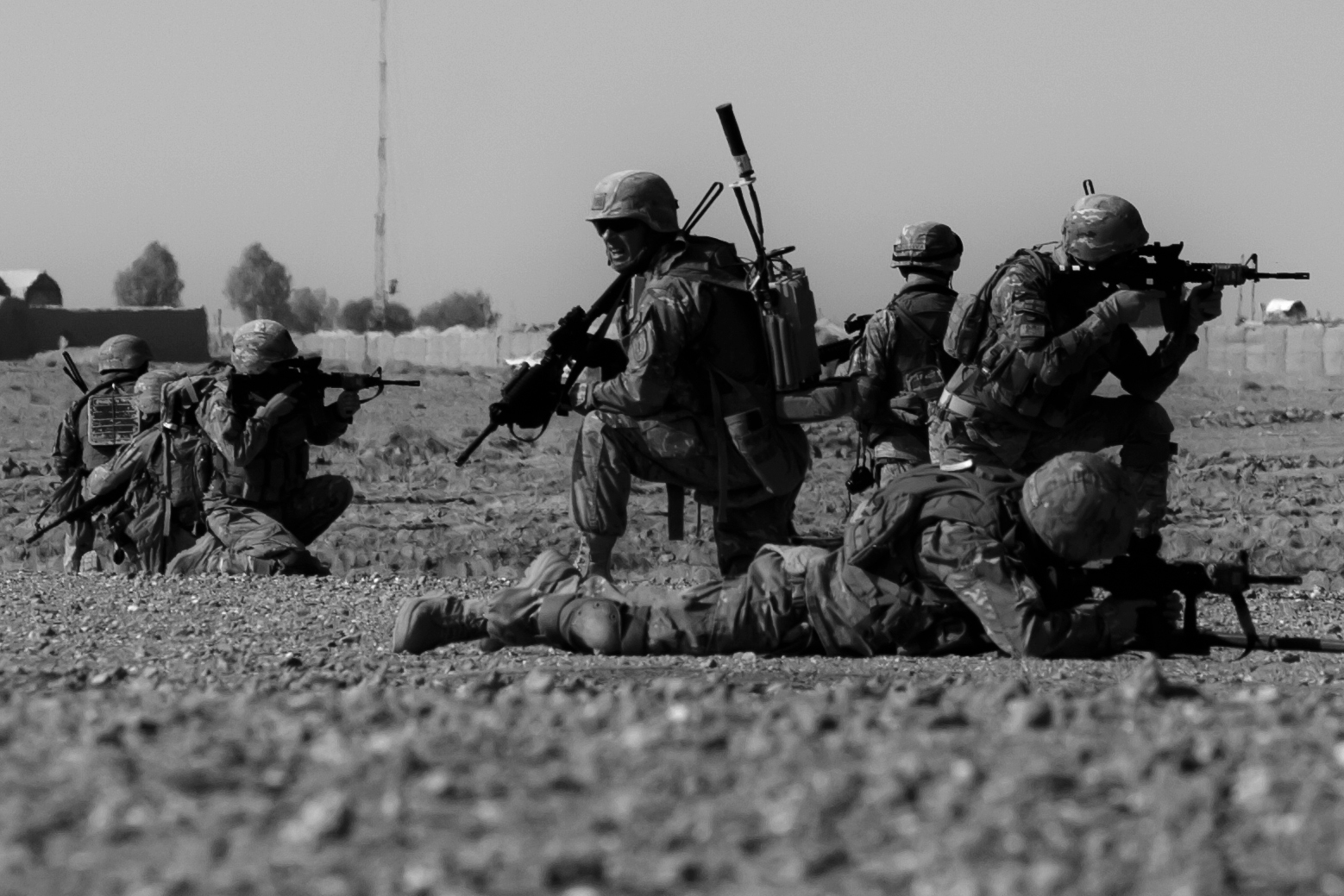 Georgian soldiers with the Batumi Light Infantry Battalion, Regional Command (Southwest), provide 360-degrees of protection during a patrol halt near Combat Outpost Eredvi, Helmand province, Afghanistan, Nov. 7, 2013. The battalion's more than 750 soldiers and officers took charge of security operation in the area less than two months ago and have significantly improved local security.